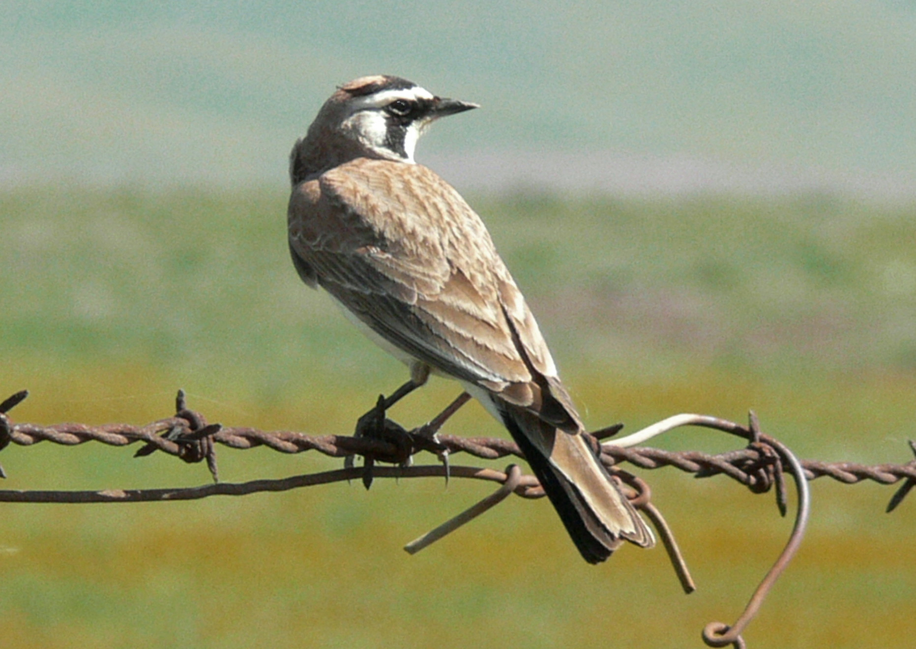 Eremophila alpestris actia Horned Lark, Chimineas Ranch, San Luis Obispo County, California.